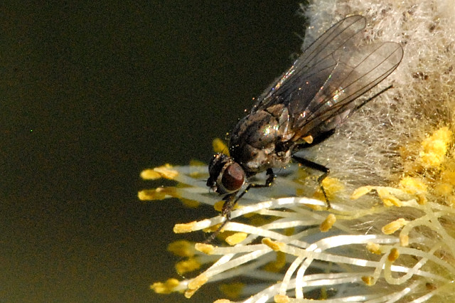 Egle ciliata from Commanster, Belgian High Ardennes .